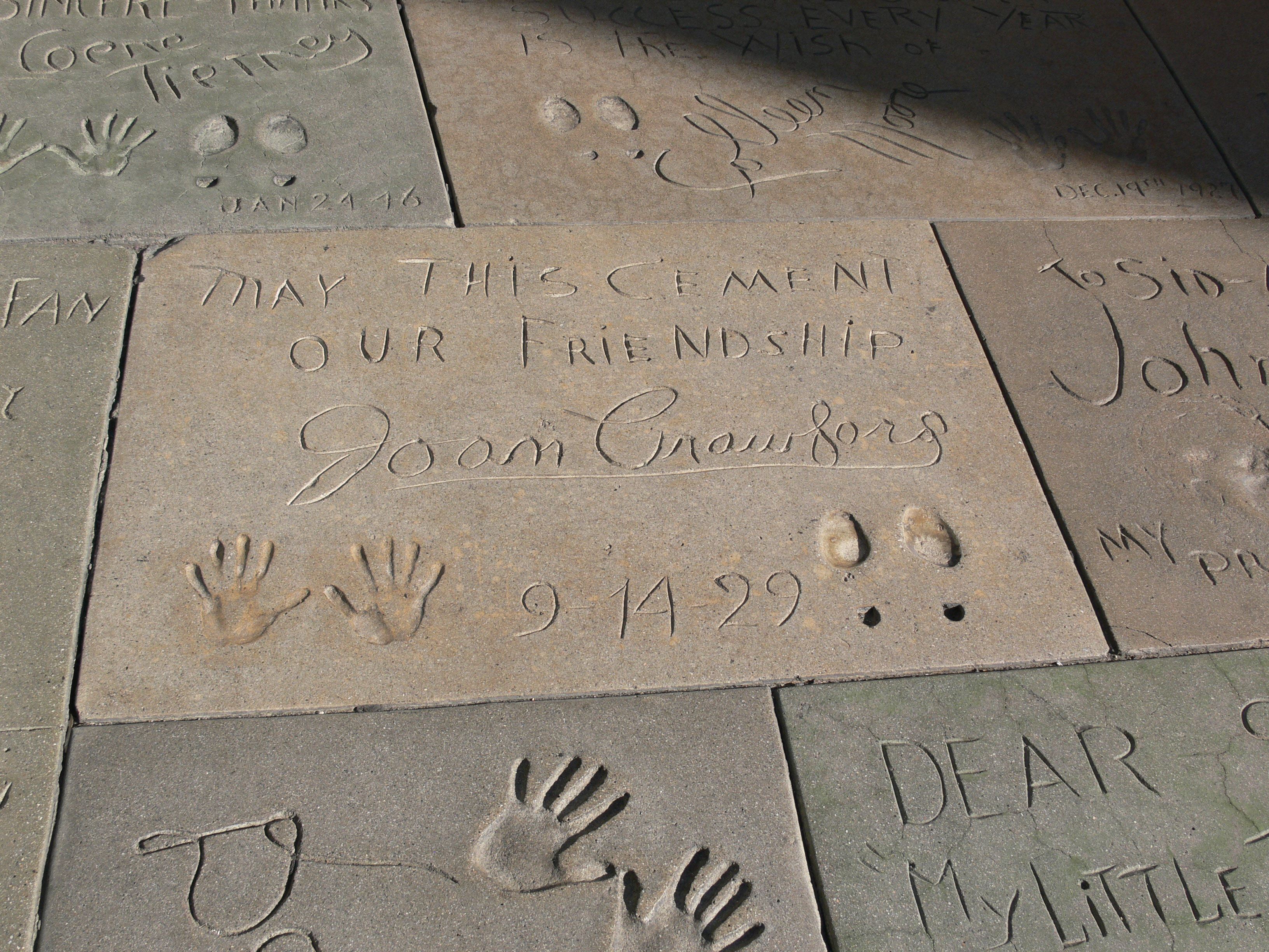 Courtyard of Grauman's Chinese Theatre, Hollywood Boulevard, Los Angeles